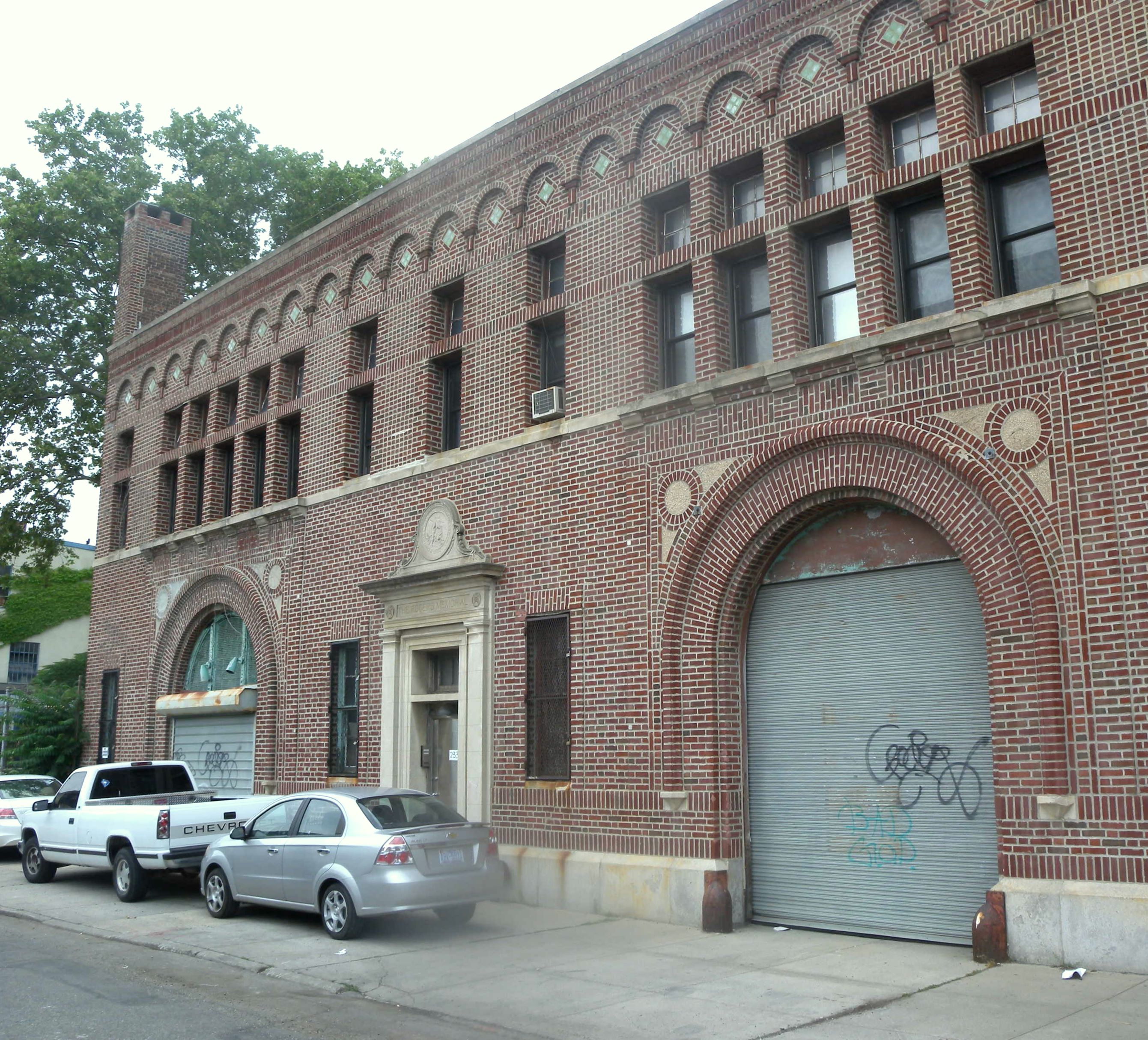 Looking north across Butler Street at ASPCA Brooklyn chapter HQ on a cloudy day.